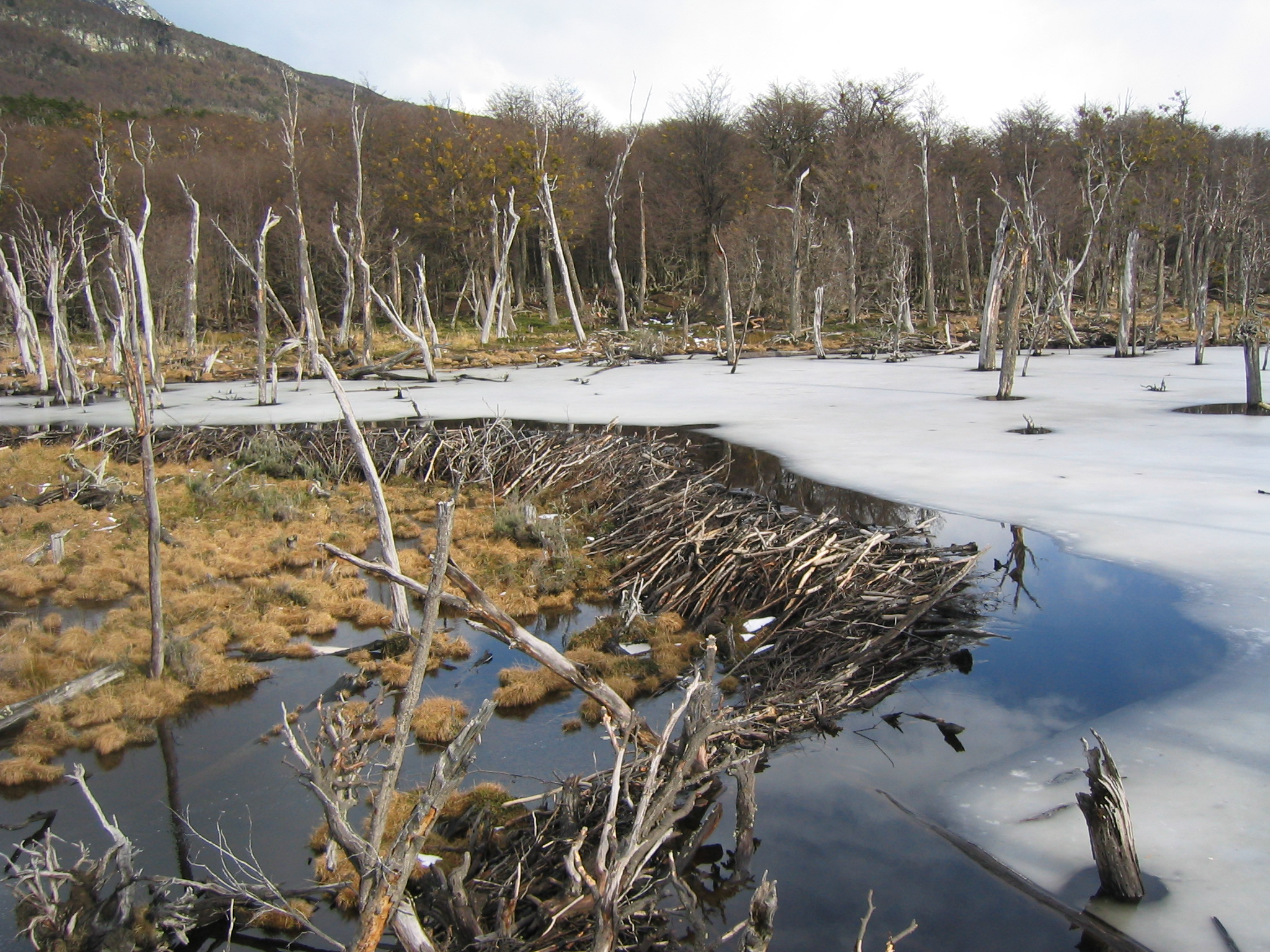 Image of beaver dam near Ushuaia, Argentina.